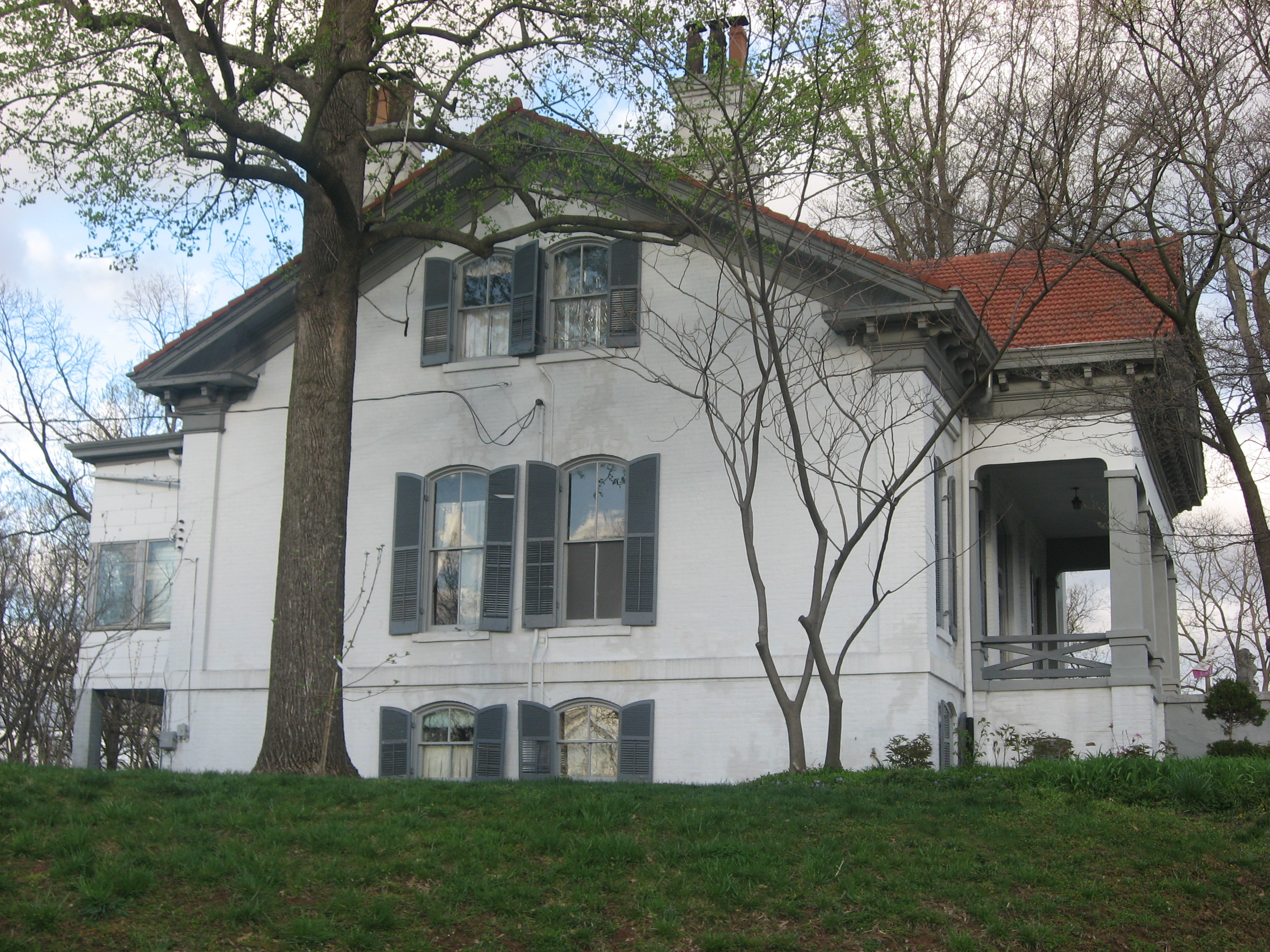 Western side and front of the Colonel George C. Thilenius House, located at 100 Longview Place in Cape Girardeau, Missouri, United States. Built in 1870, it is listed on the National Register of Historic Places.